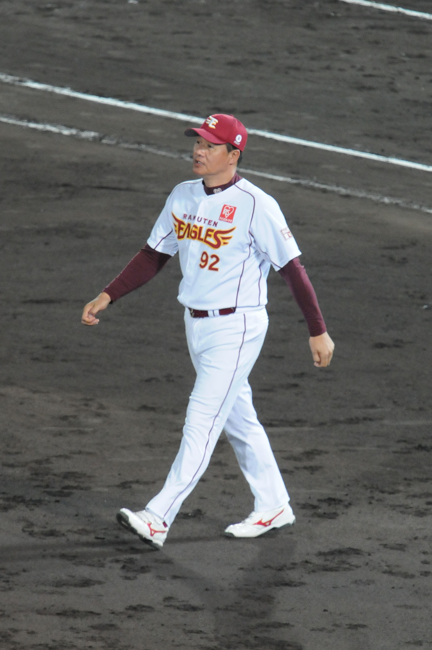 Tsuyoshi Yoda, coach of the Tohoku Rakuten Golden Eagles, at Akita Prefectural Baseball Stadium